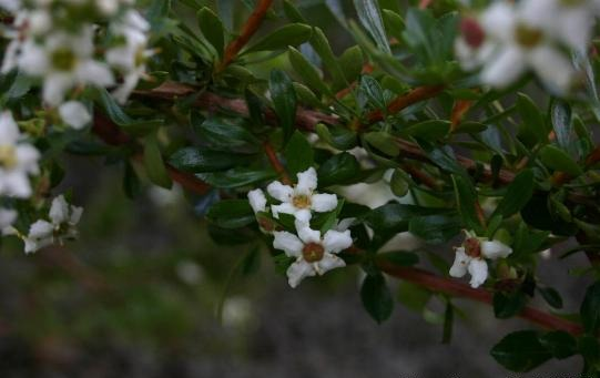 Escallonia virgata: Flowers and foliage.